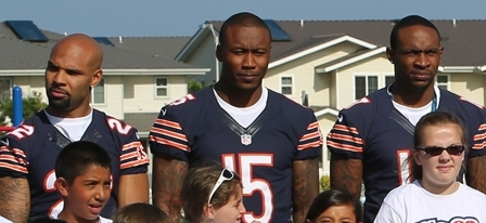 National Football League players pose with Mokapu Elementary School students on campus during the NFL Play 60 initiative, Jan. 22. The Play 60 program is the NFL’s national youth health and fitness movement. Players from the Arizona Cardinals, Chicago Bears, Cincinnati Bengals and Jacksonville Jaguars played with the 5th and 6th graders of Mokapu while players from the Minnesota Vikings, Baltimore Ravens and Cleveland Browns painted a mural for the Semper Fit Center.